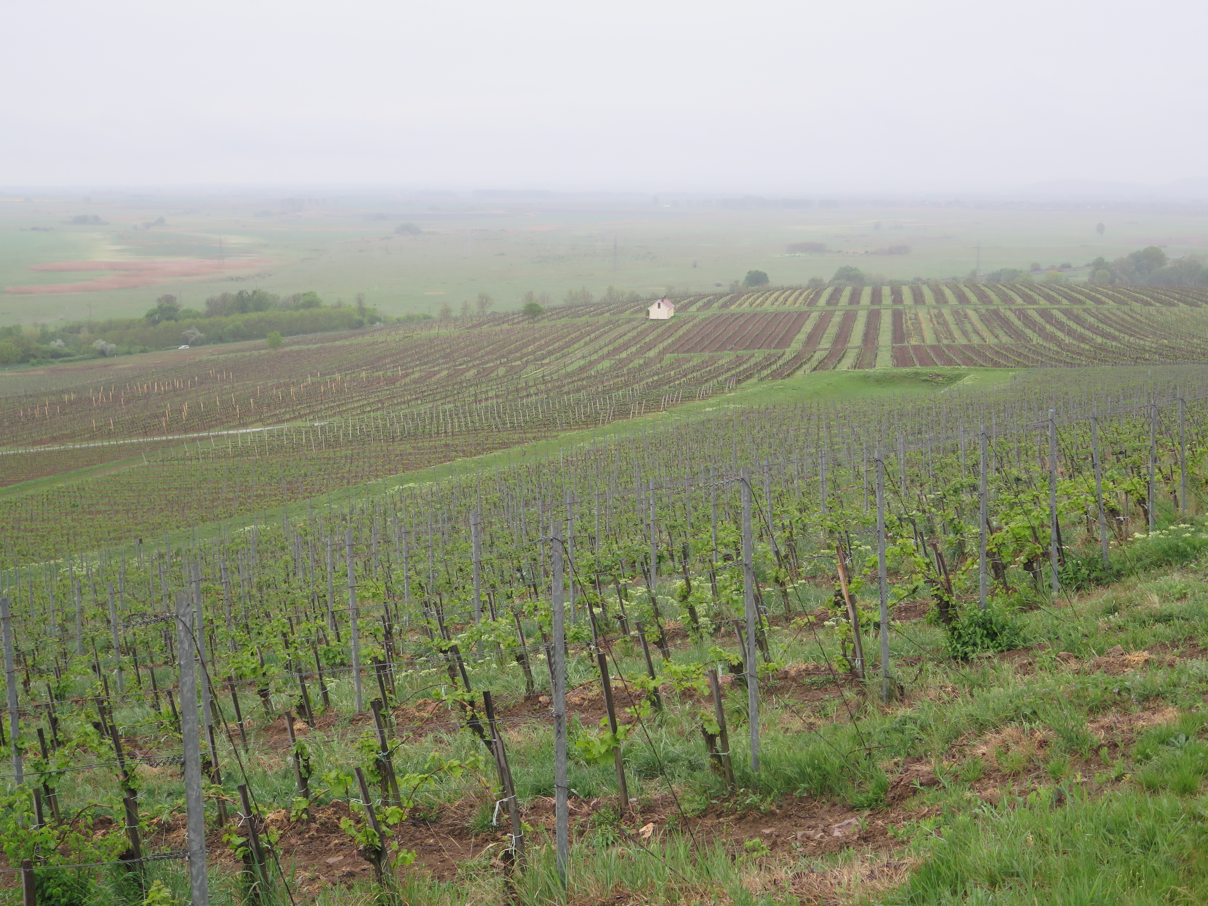 Mézes Mály vineyard in Tarcal